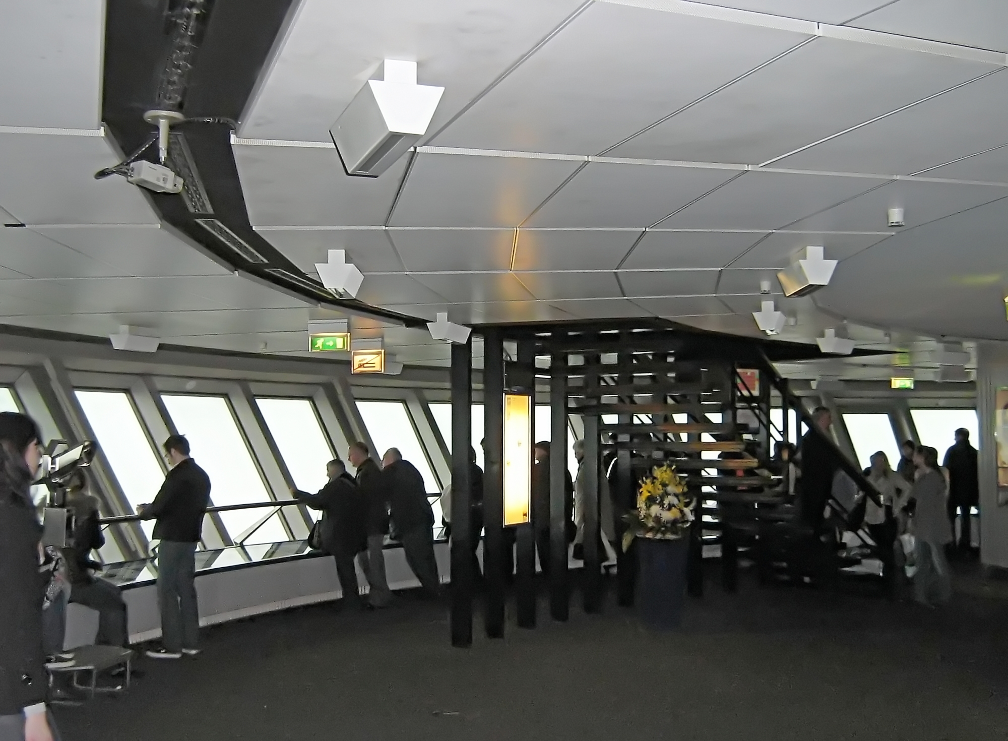 TV-Tower Berlin (Fernsehturm) inside view panorama floor